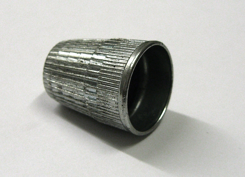 Thimble, Fingerhut